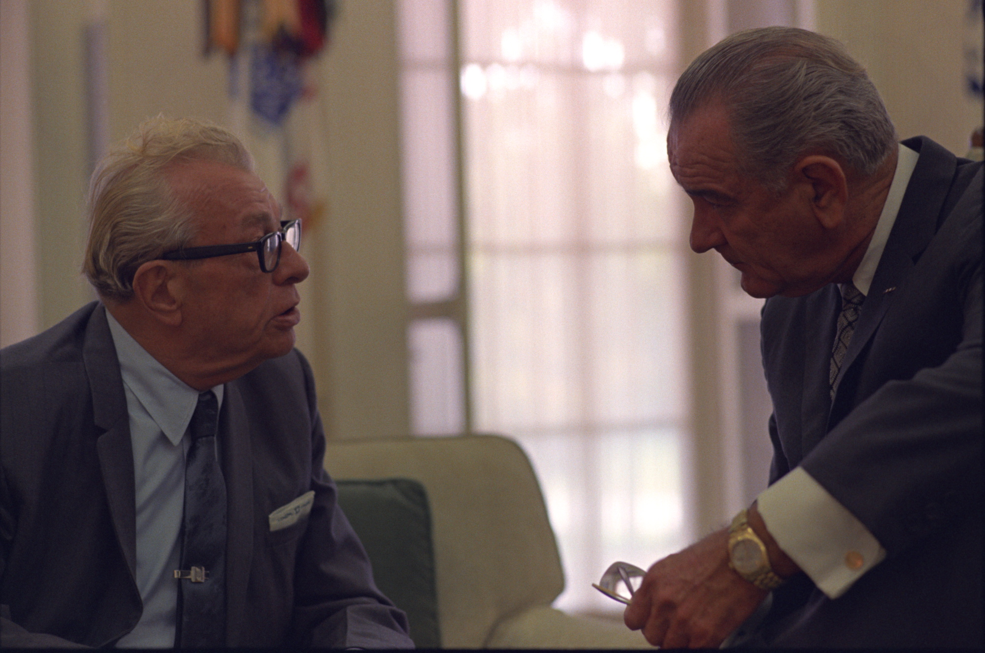 President Lyndon B. Johnson and Sen. Everett Dirksen in the Oval Office